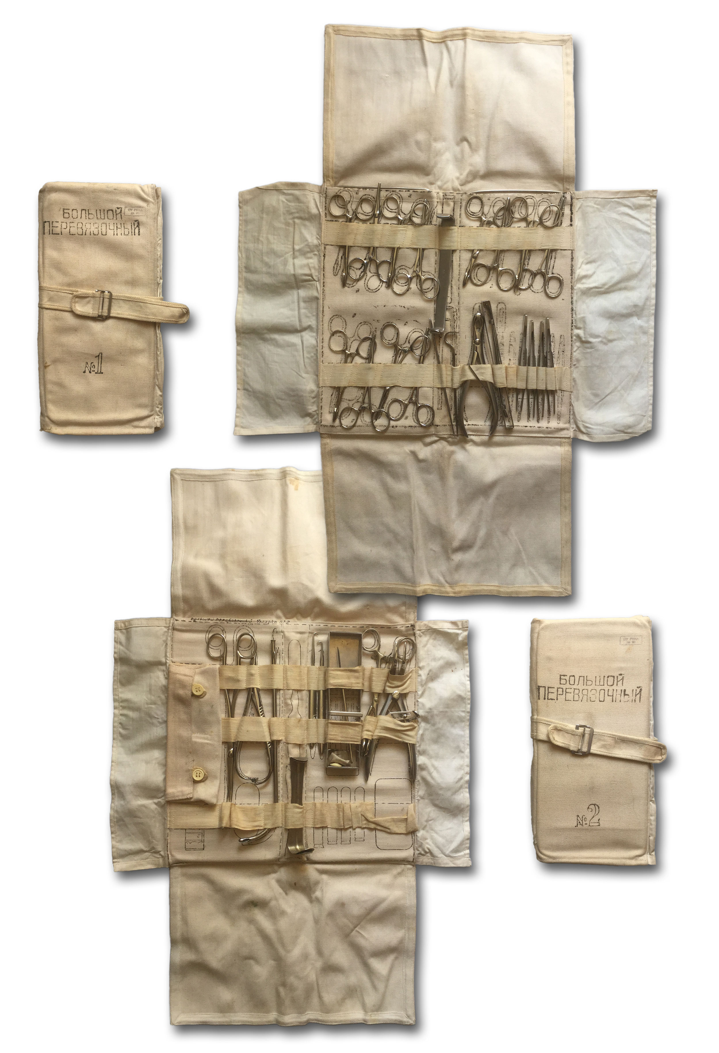 Display of a surgical Field Cutlery of the Red Army (about 1941). Found in abandoned position during the first battle of Kiev. Then used in one of the medical units of the 134th Infantry Division.